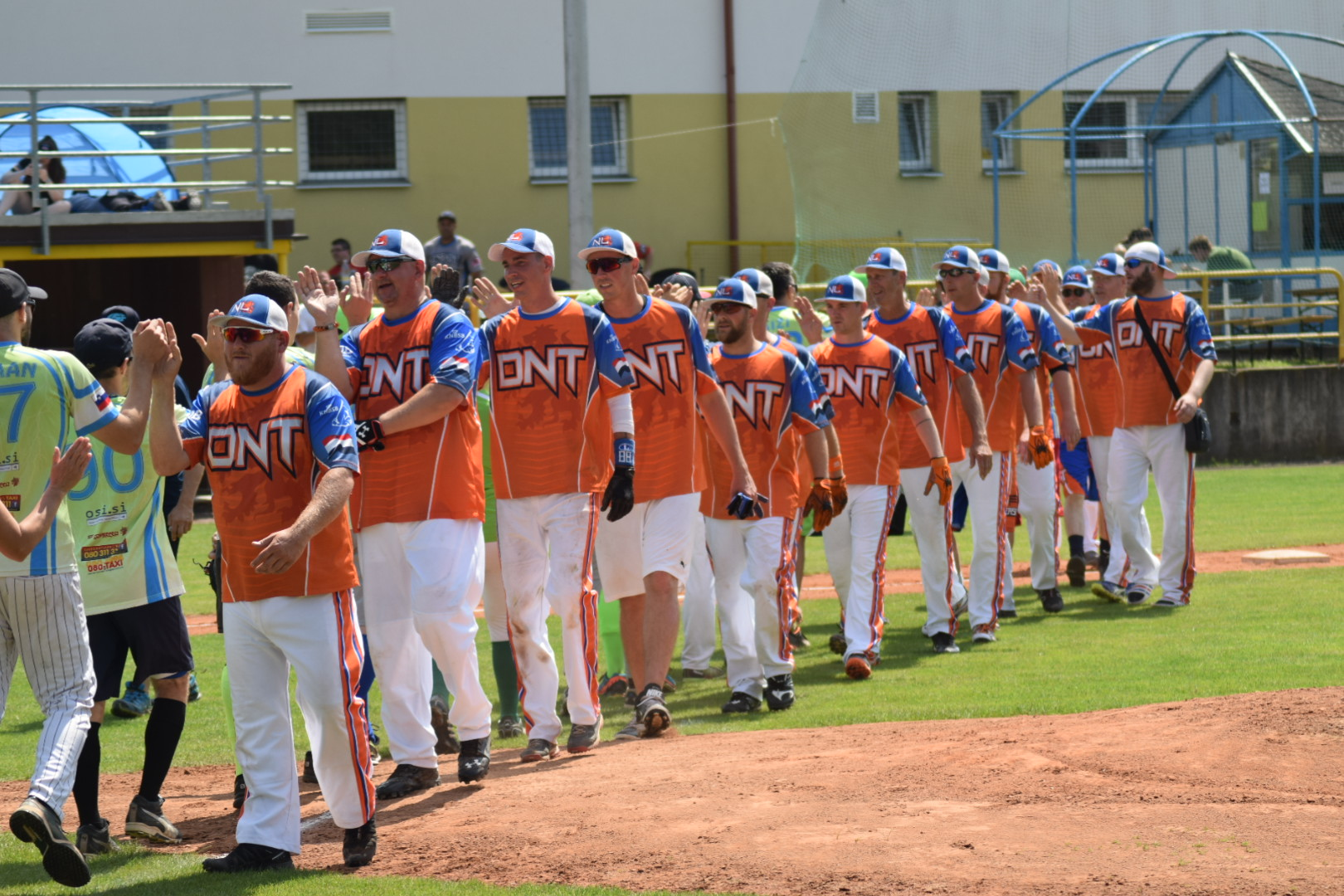 Dutch National Slowpitch team after a game